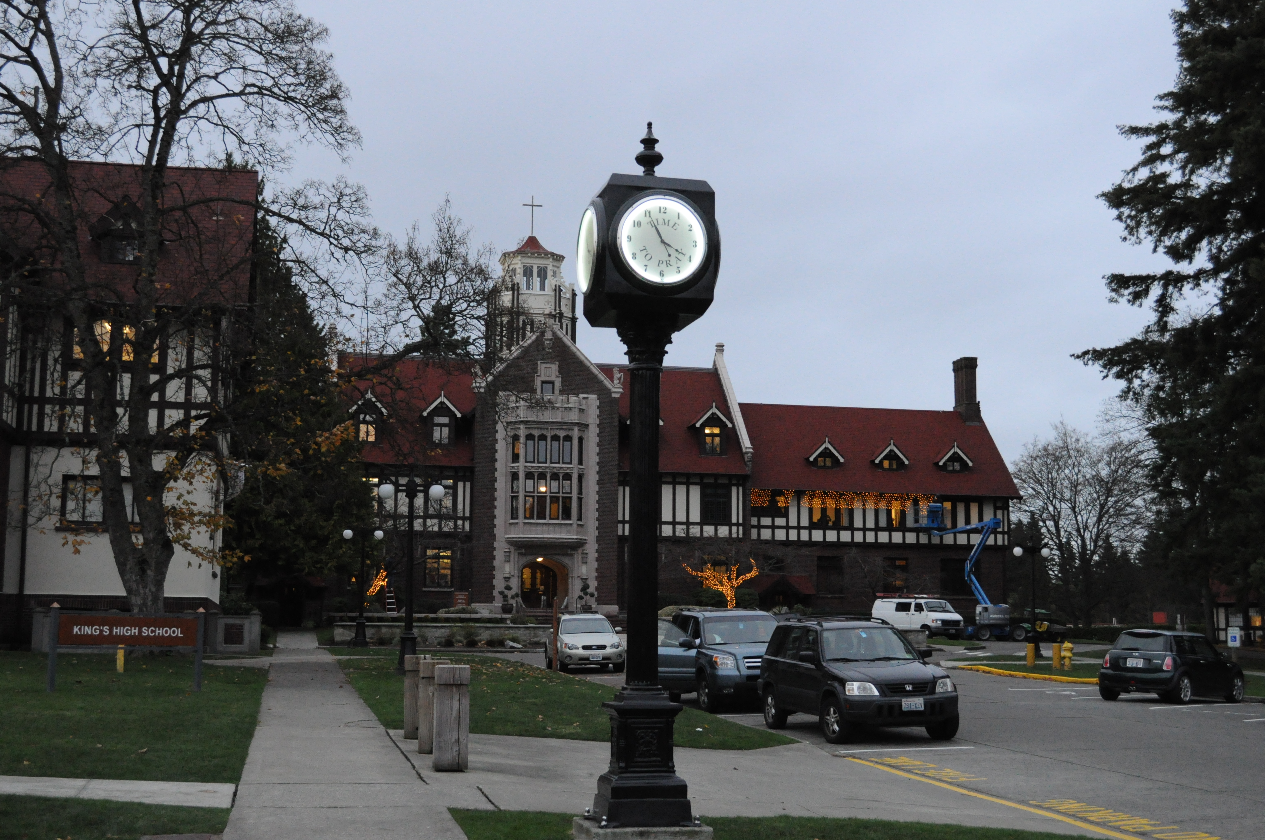 Clock with legend "time to pray" and administration building of Crista Ministries / King's Schools, Richmond Highlands, Shoreline Washington, USA. The building, designed by Daniel R. Huntington, was built 1913-1914 as the administration building of the Firland Tuberculosis Hospital.